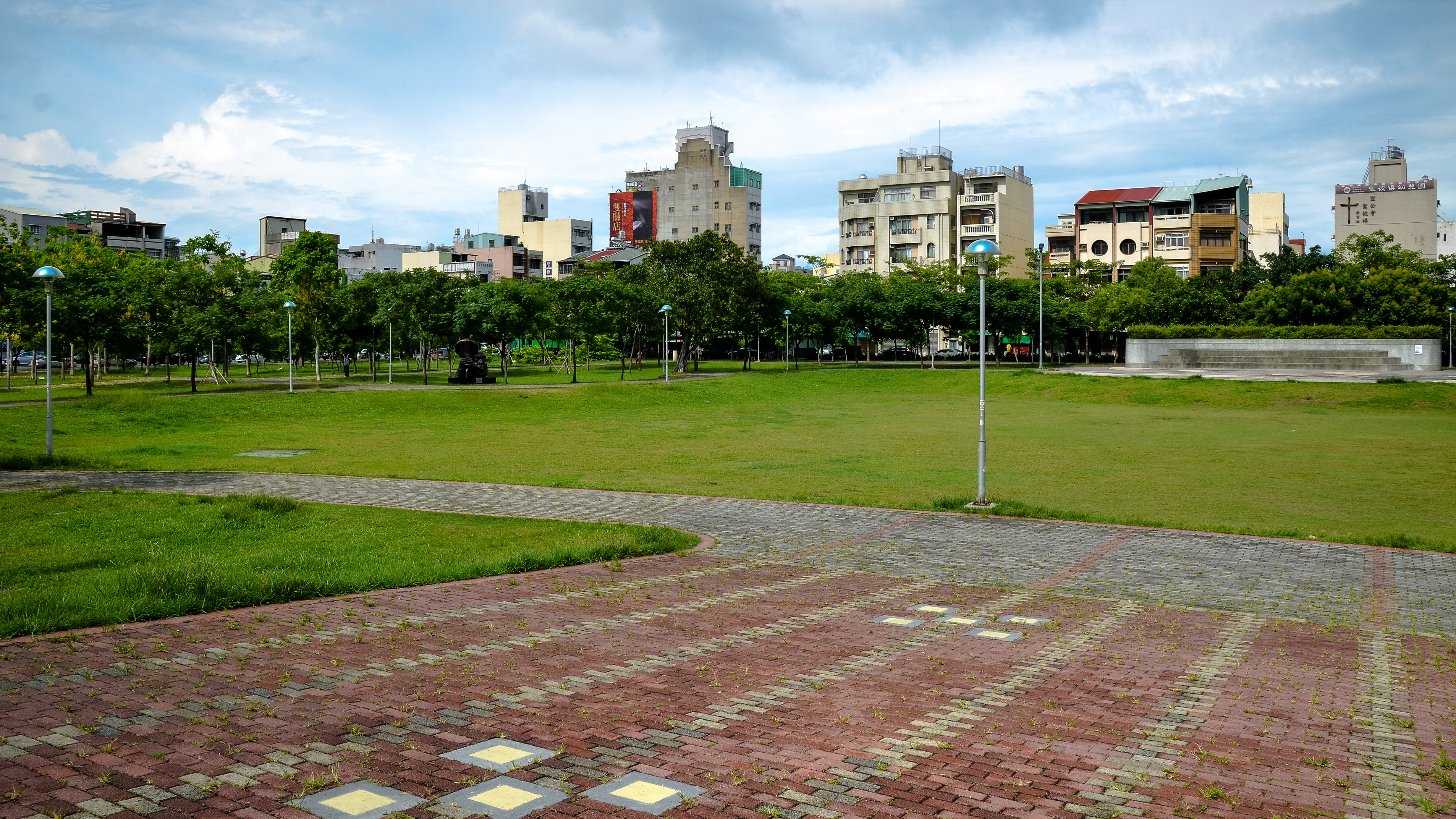 Chiayi Wen Hua Park, Chiayi City, Taiwan.